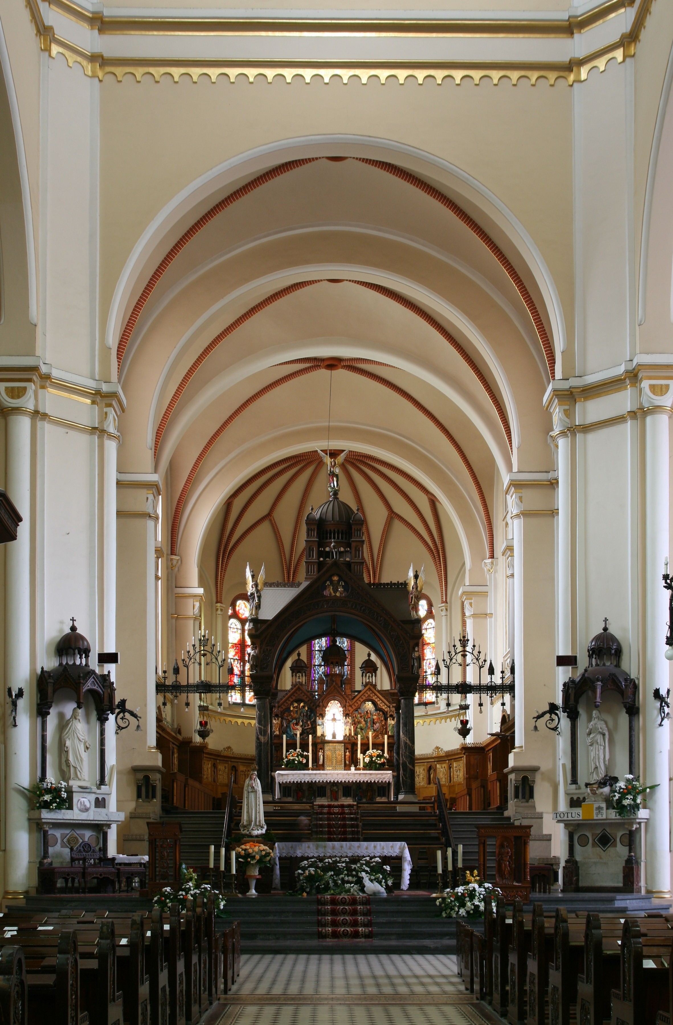 Basilica of St. Francis in Katowice.